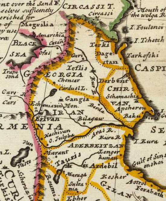 Persia, Caspian Sea, part of Independent Tartary. By H. Moll Geographer. (Printed and sold by T. Bowles next ye Chapter House in St. Pauls Church yard, & I. Bowles at ye Black Horse in Cornhill, 1736)